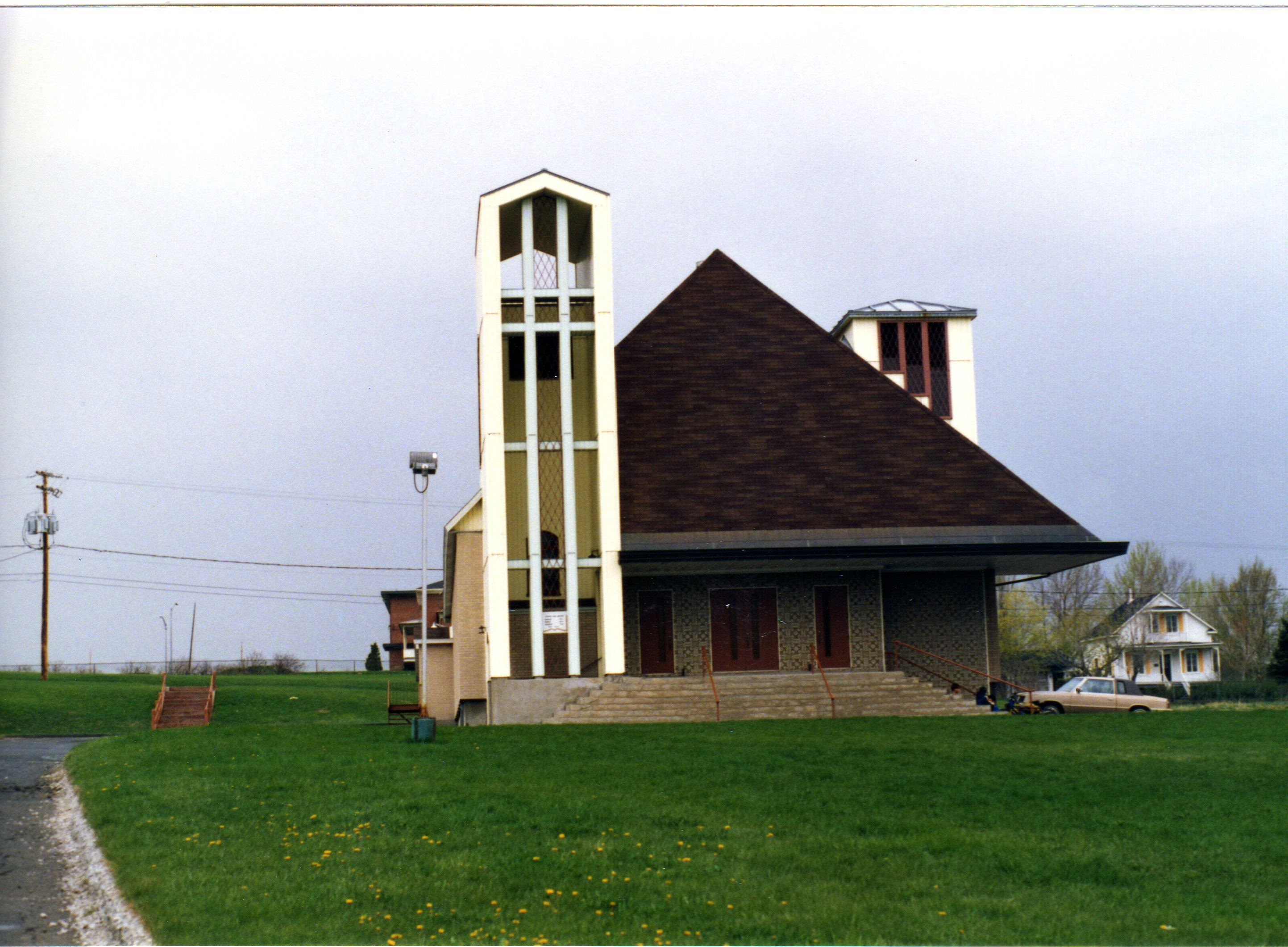 Saint-Thomas-de-Villeneuve church in Beauport, photographed in 1986. It was completed in 1950 and was demolished in 2013.